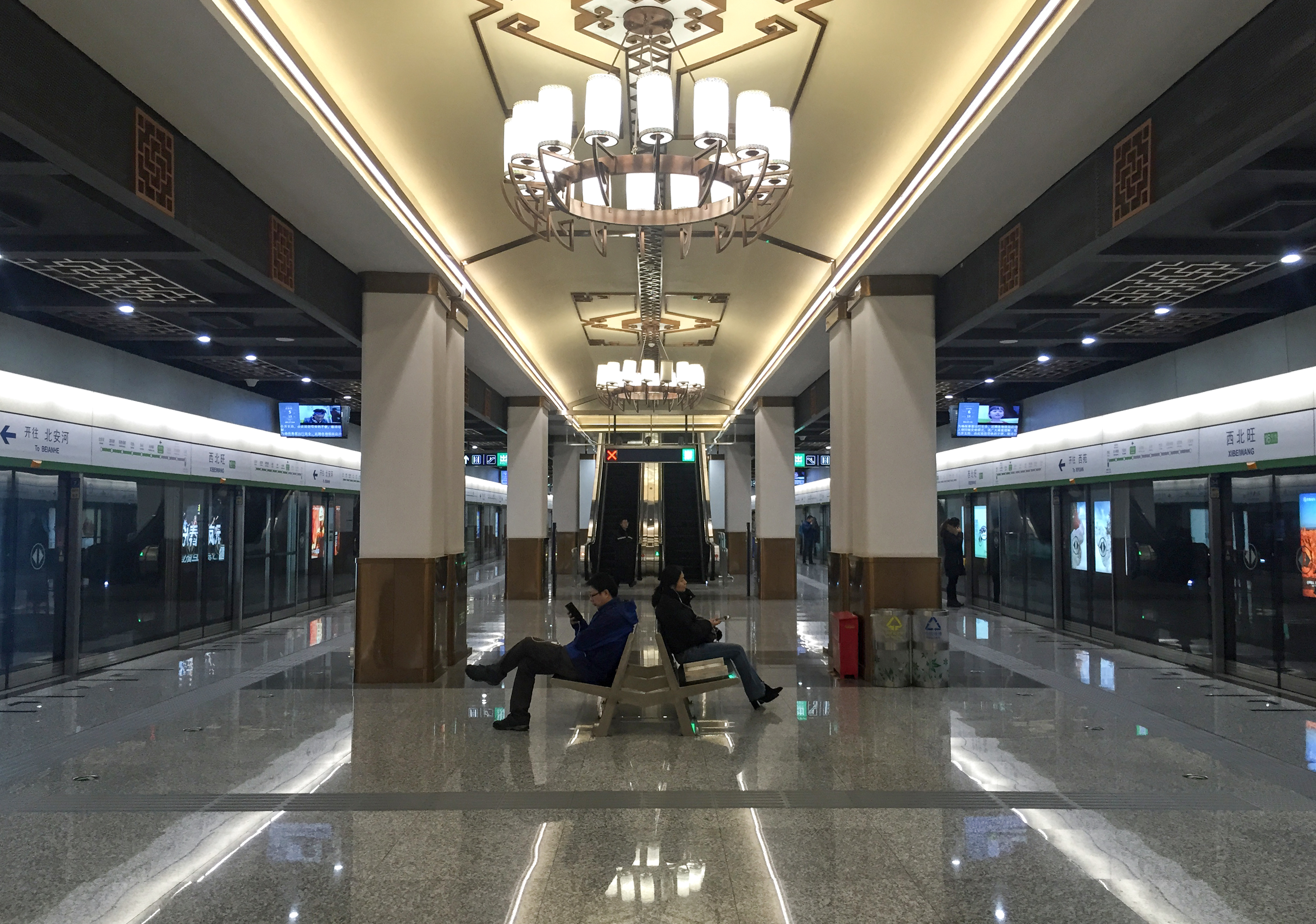 Taken from the northmost.